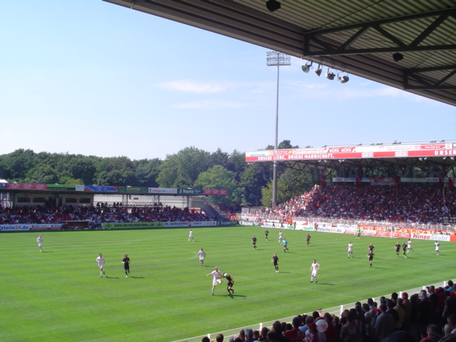 Stadion (Stadium) an der Alten Försterei hosting Union Berlin vs. Fortuna Duesseldorf in 2009.